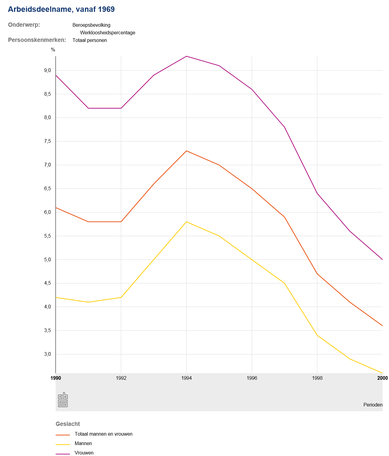 Unemployment percentage by sex from 1990